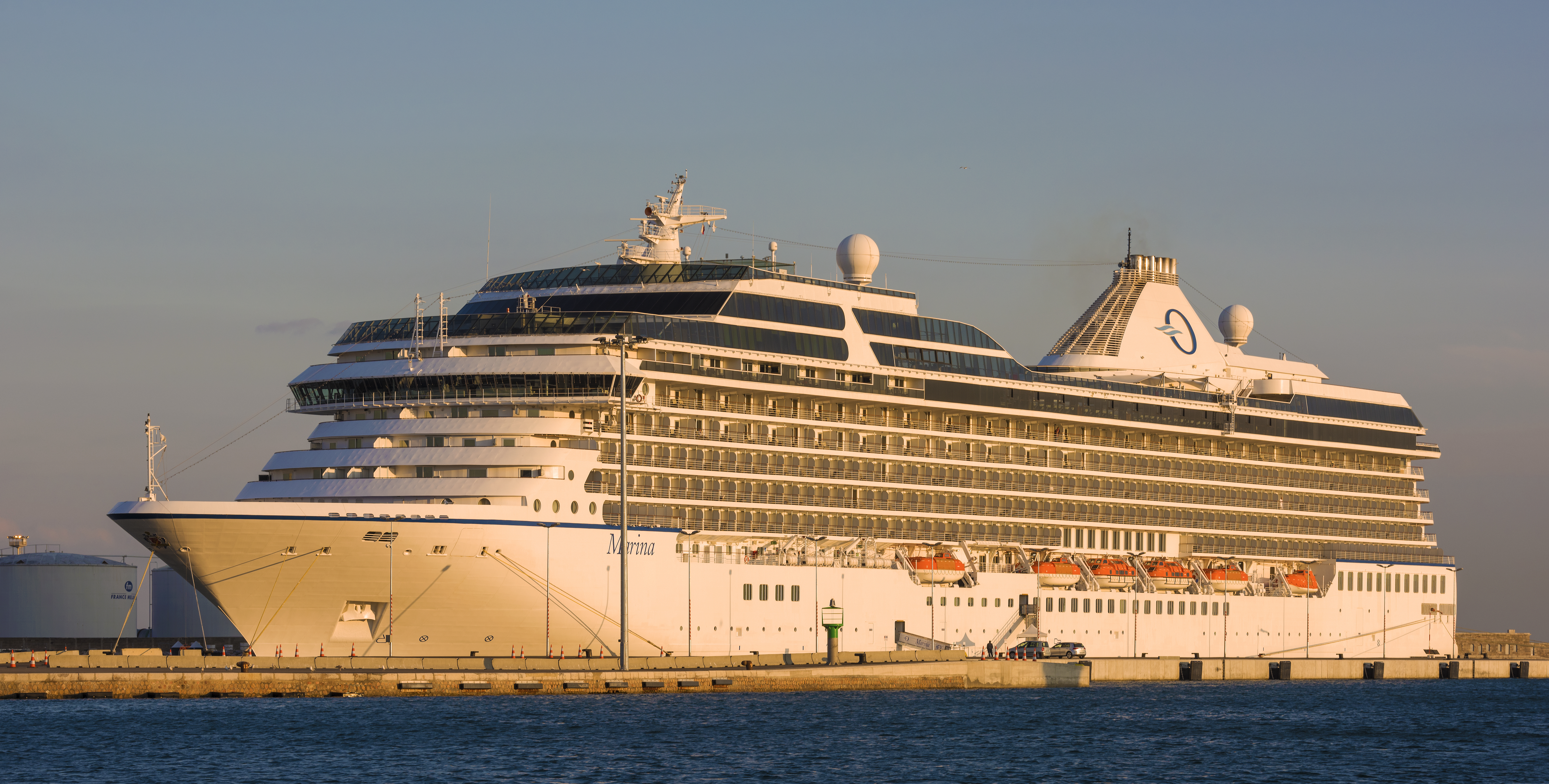 Marina (ship, 2011). Sète, Hérault, France.